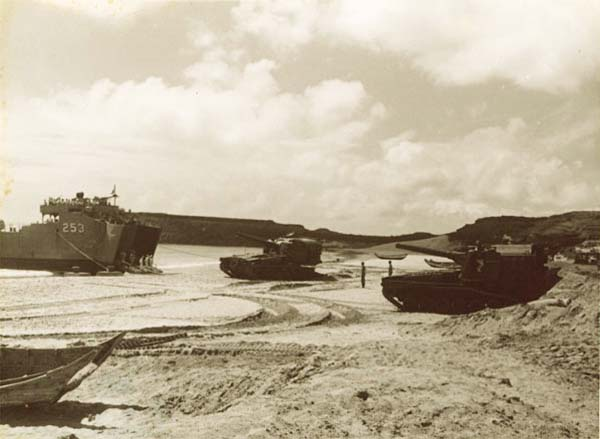 M55 self-propelled howitzer being unloaded from Landing Ship Medium (LSM).